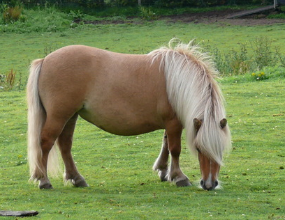 Shetland pony in Gairneybridge, Kinross-shire.